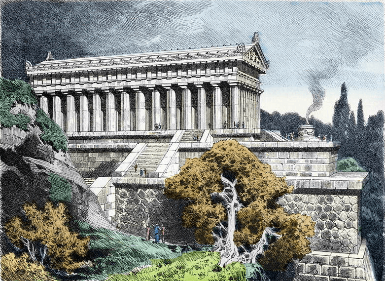 The Temple of Artemis (Diana) by Ferdinand Knab.